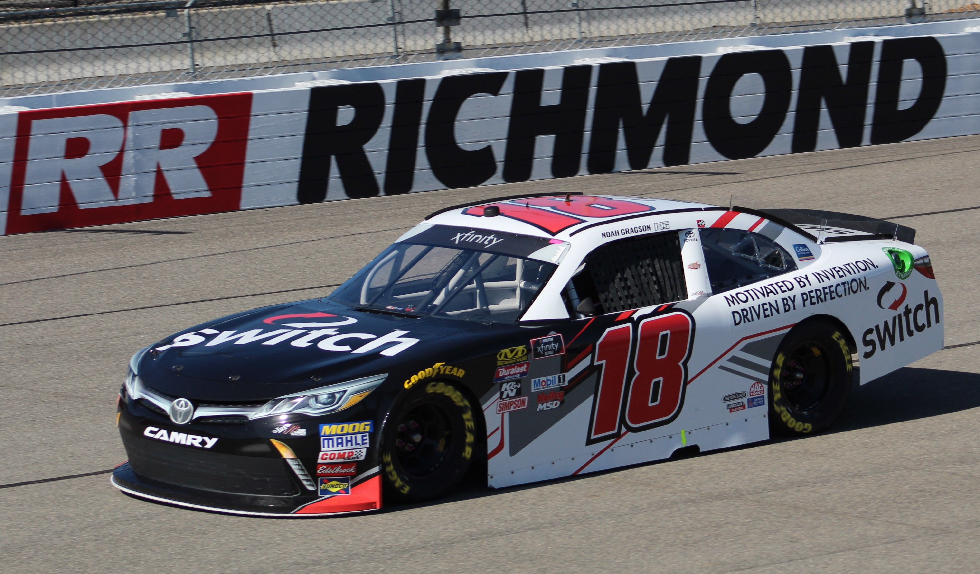 Noah Gragson's No. 18 Switch Toyota at Richmond Raceway in 2018